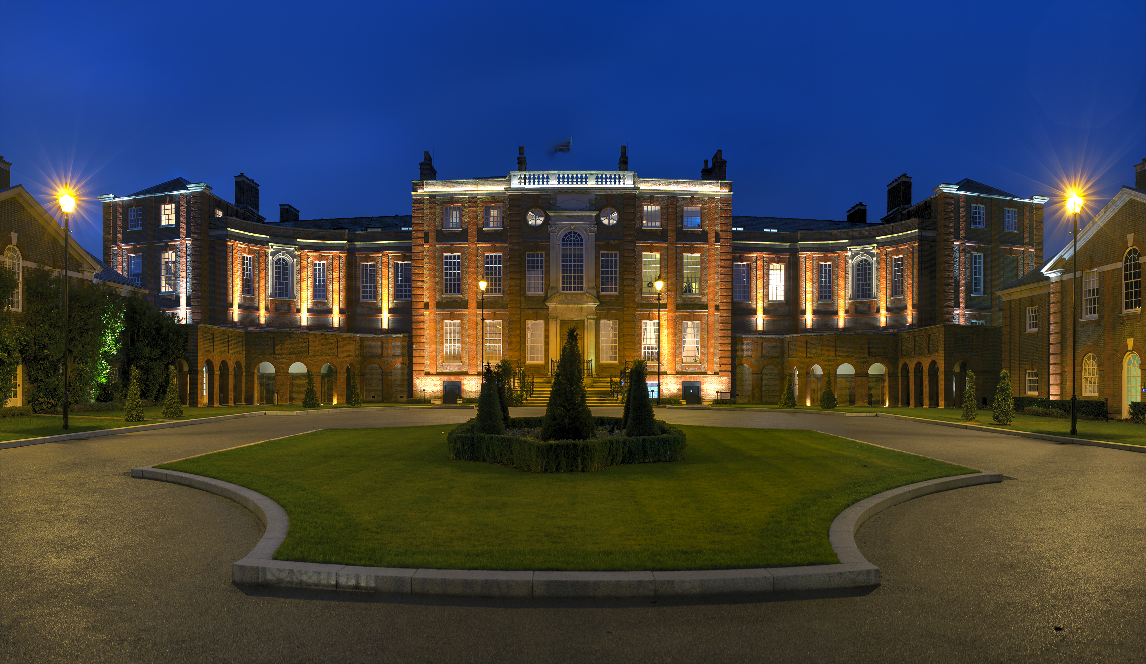 Roehampton House, Roehampton, London, UK.